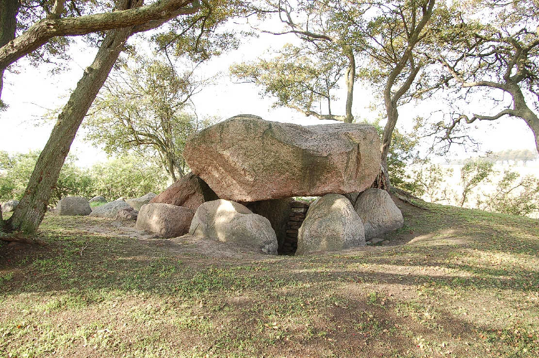 Pictures from Rerik